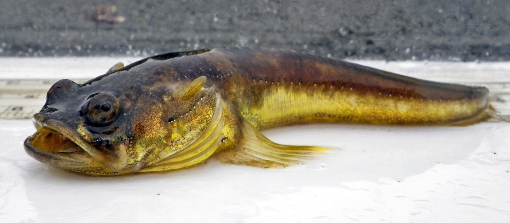 Crop of file in filename